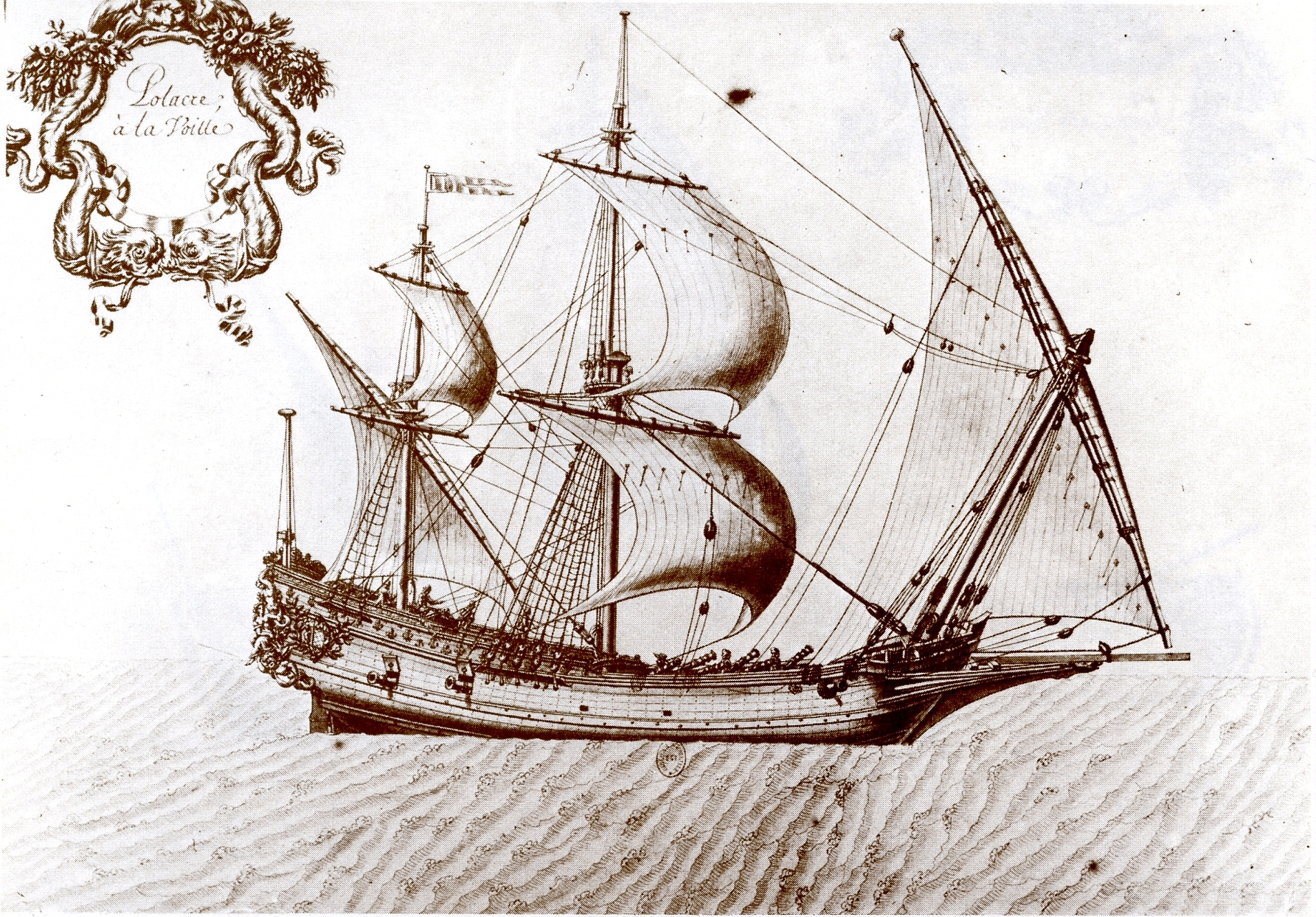 Polacre from "Jean Jouve. Desseins de tous les Bâtiments qui Naviguent sur la la Méditerranée. 1679" (Pl.28)